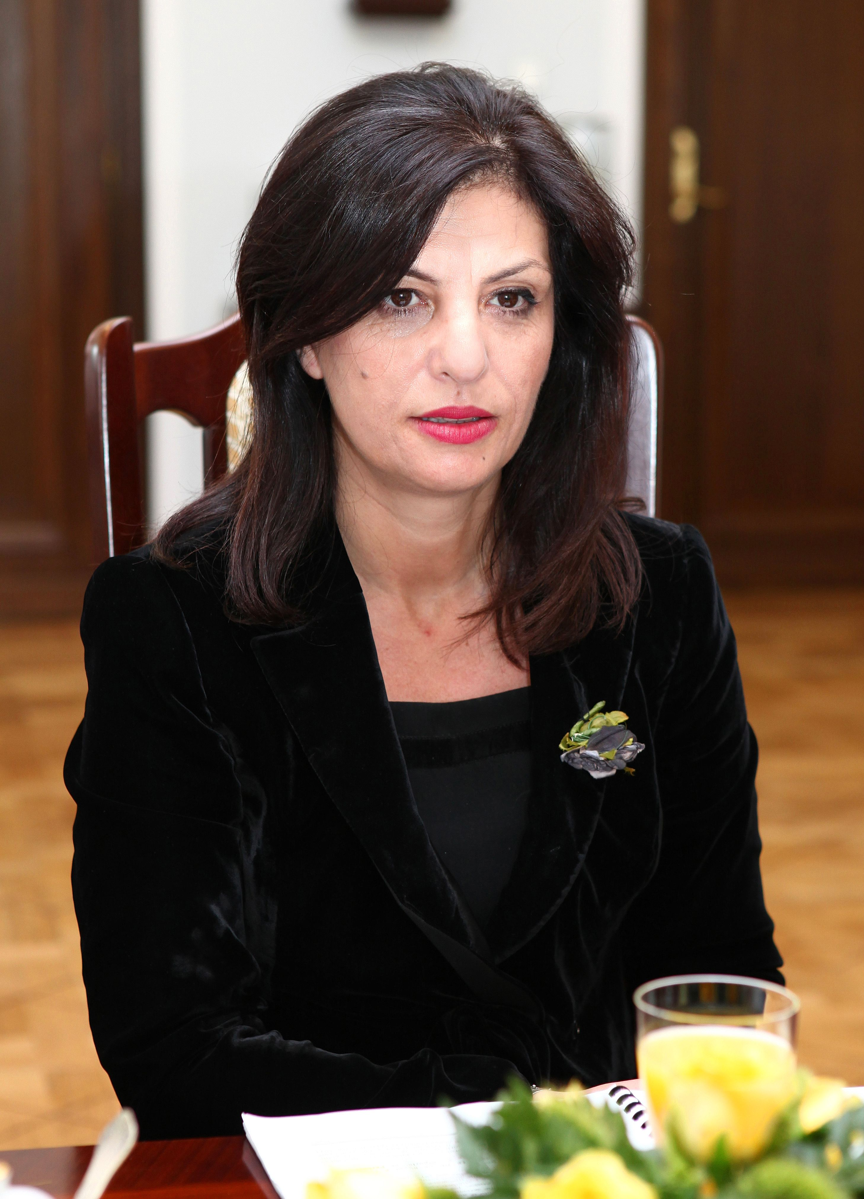 Chairwoman of the Parliament of Albania Jozefina Topalli in the Polish Senate